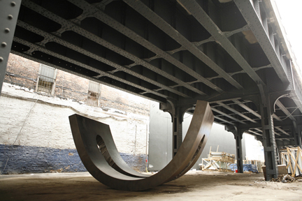 Sculpture "Form UNE" by Christine Corday under the New York City highline